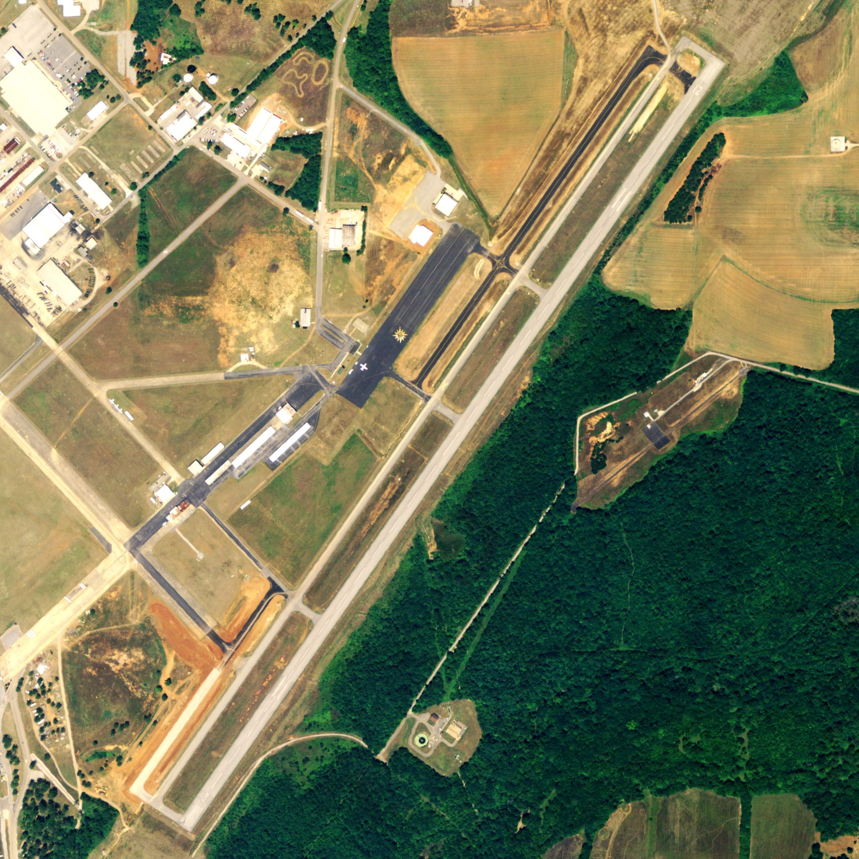 Aerial image of Talladega Municipal Airport in Talladega, Alabama, United States